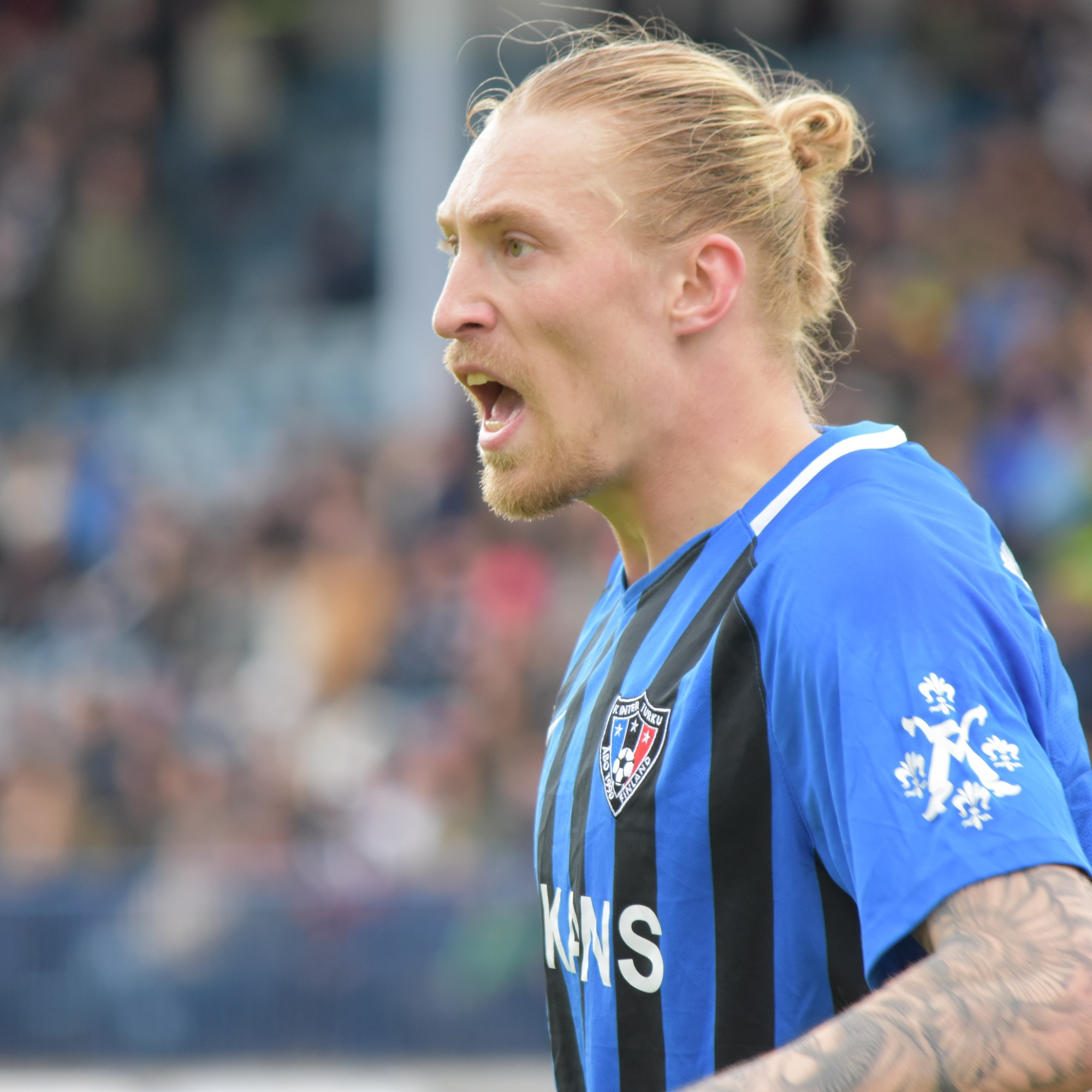 Football player Teemu Penninkangas (FC Inter Turku)